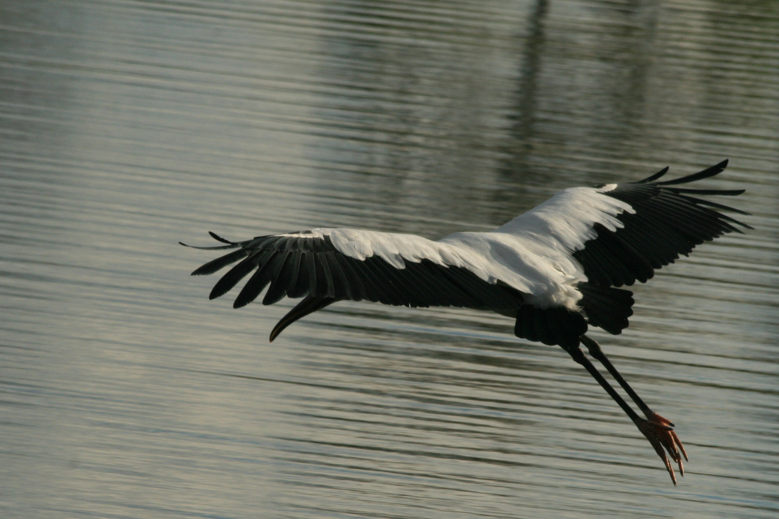 Wood stork (Mycteria americana) in flight. Tradewinds Park, Cocnut Creek, Florida, USA.